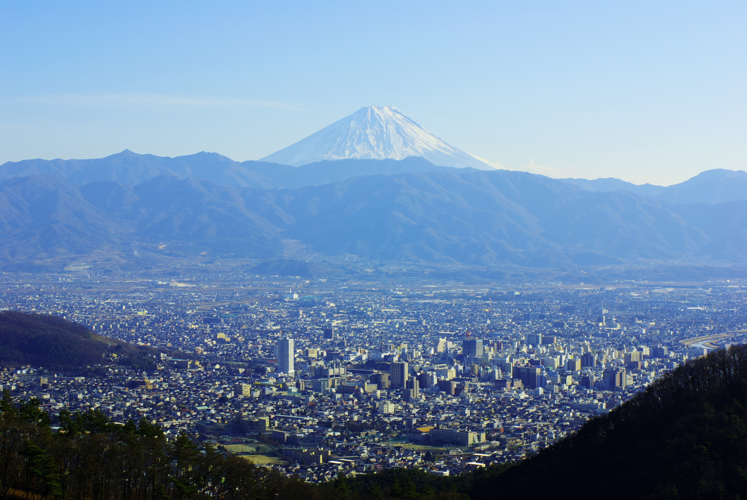 The downtown of Kofu City